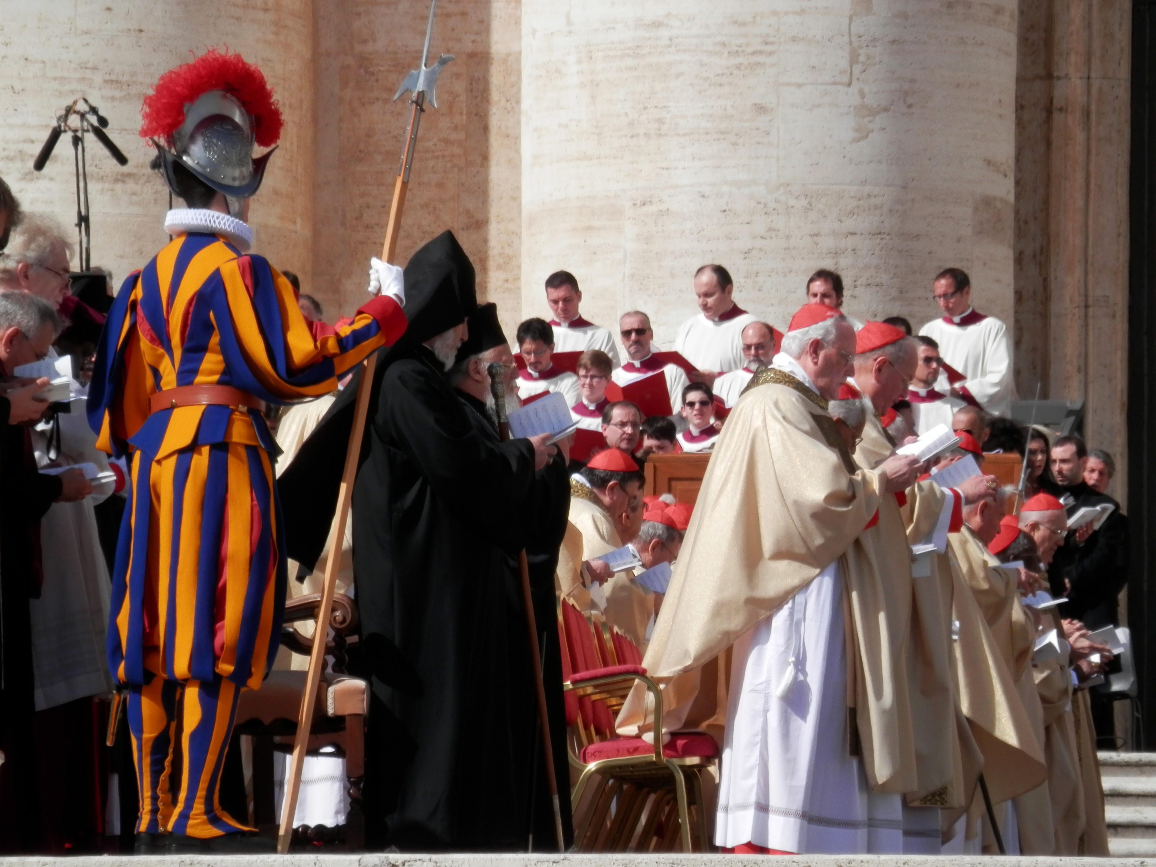 Inauguration of Pope's Francis Ministry, 19 March 2013